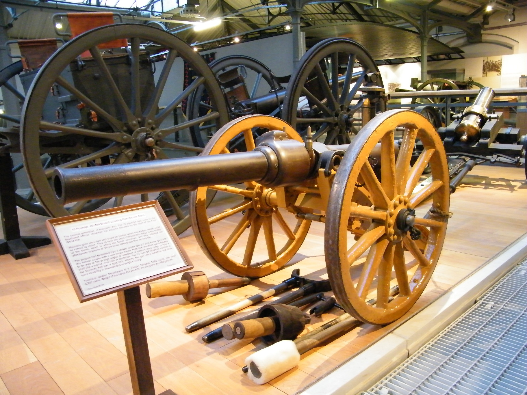 1902 built 10 Pounder Mountain Gun on display at the Firepower Royal Artillery Museum, Woolwich, UK.